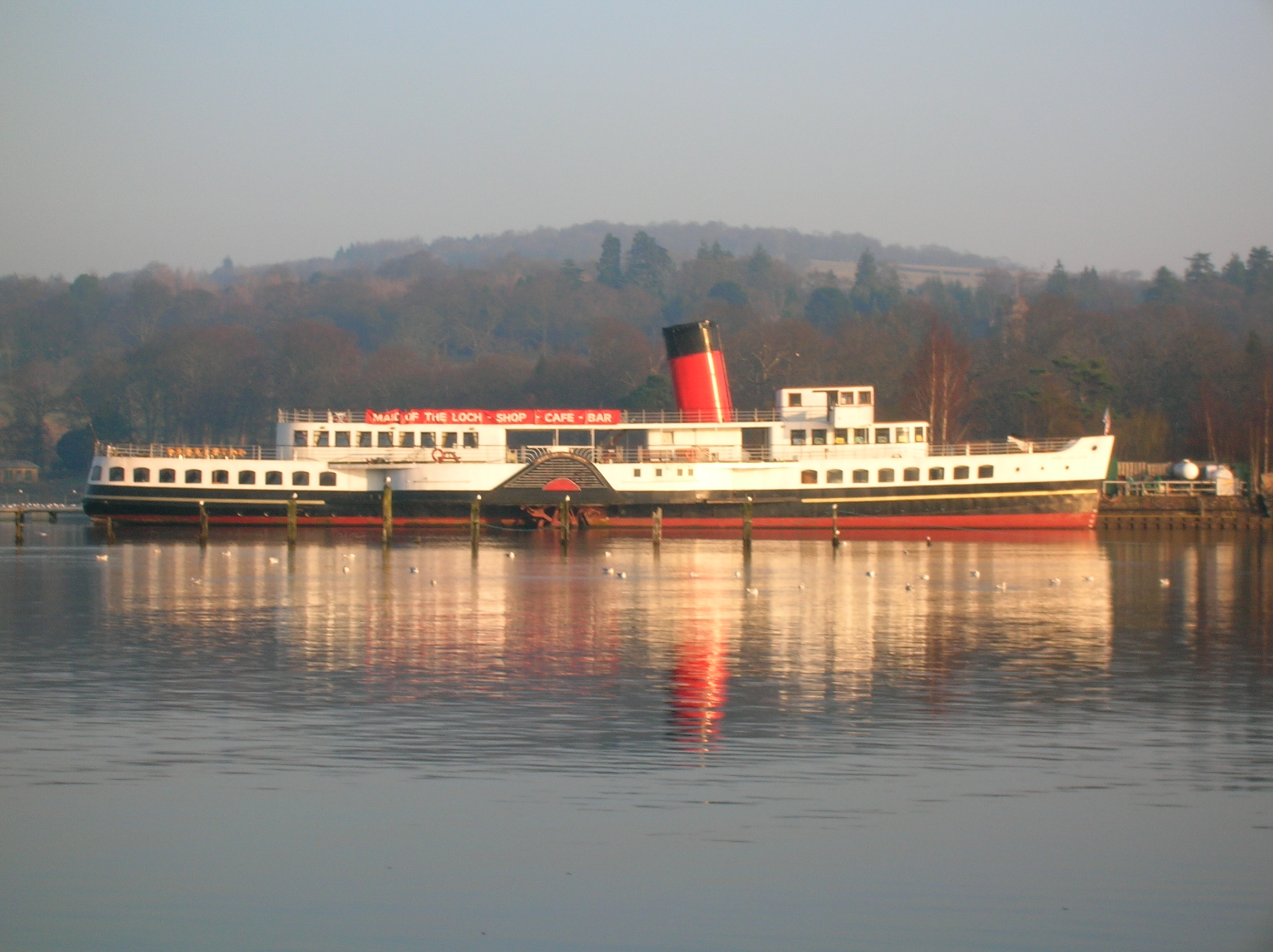 The 'Maid of the Loch' paddle steamer at Balloch Pier, Loch Lomond, Scotland.